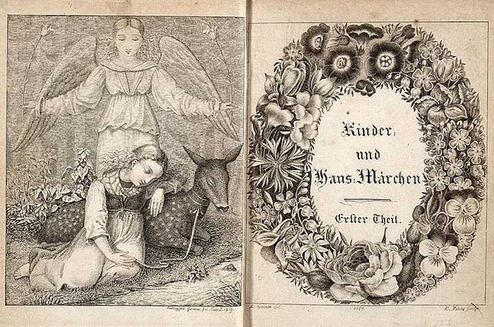 Frontispiece and decorative title page of 1819 edition of Brothers Grimm Kinder- und Hausmarchen, illustrated by Ludwig Emil Grimm, engraved by L. Haas.